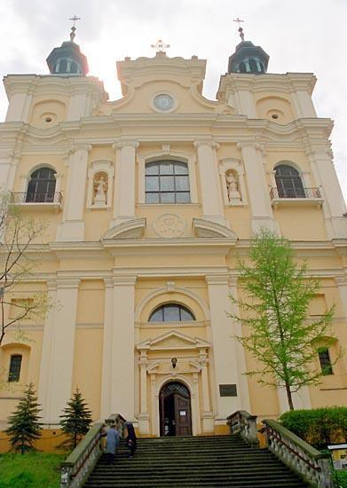 Greek Catholic Cathedral of St. John the Baptist in Przemysl, Poland